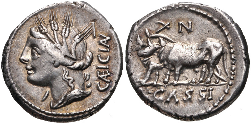 L. Cassius Caecianus. 102 BC. AR Denarius (18mm, 3.94 g, 2h). Rome mint. Head of Ceres left, wearing wreath of grain ears; I behind / Yoked pair of oxen left; N above . Crawford 321/1; Sydenham 594; Cassia 4. VF.